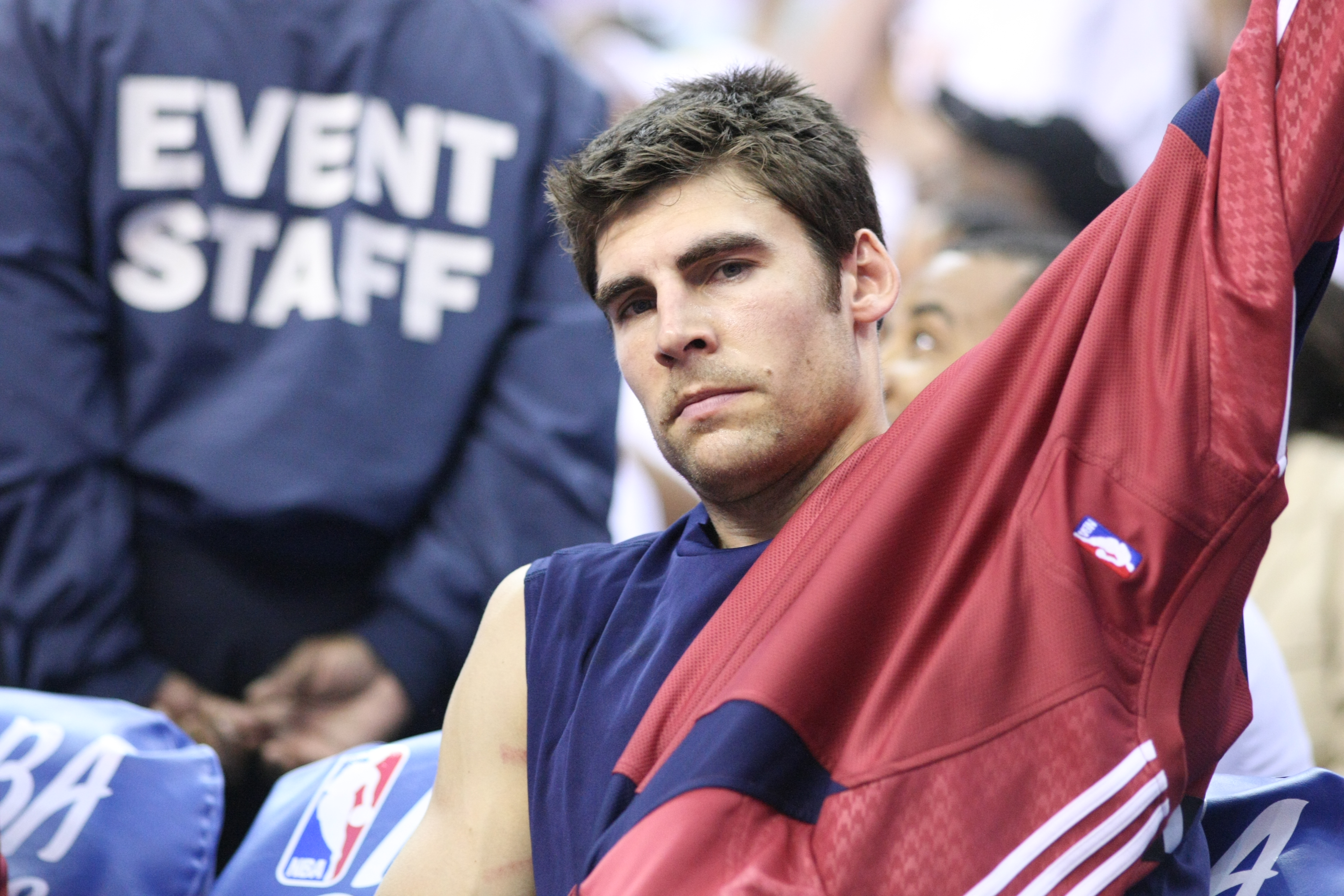 Wally Szczerbiak, American basketball player for the Cleveland Cavaliers (at time of photo)